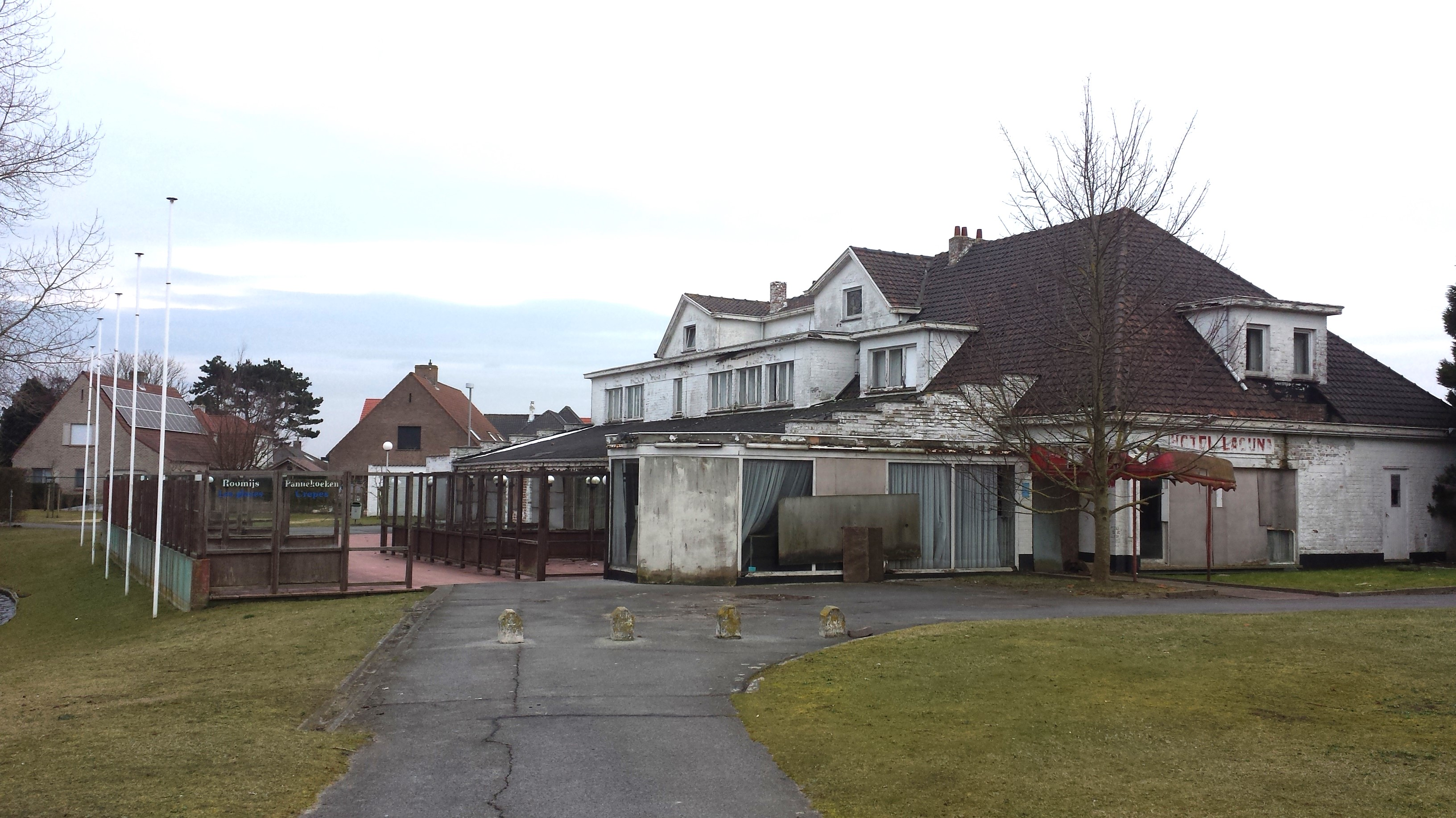 Former hotel-restaurant 'Laguna' at Heist Lake (Duinbergen, Knokke-Heist, Belgium)